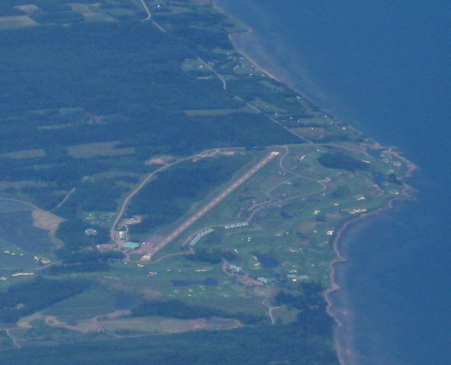 Overhead view of Fox Harbour (CFH4) in Nova Scotia, Canada